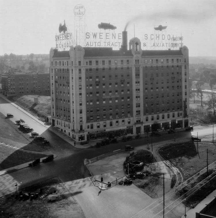 Photo of the Sweeney Automobile School, taken in 1922 from the roof of Union Station